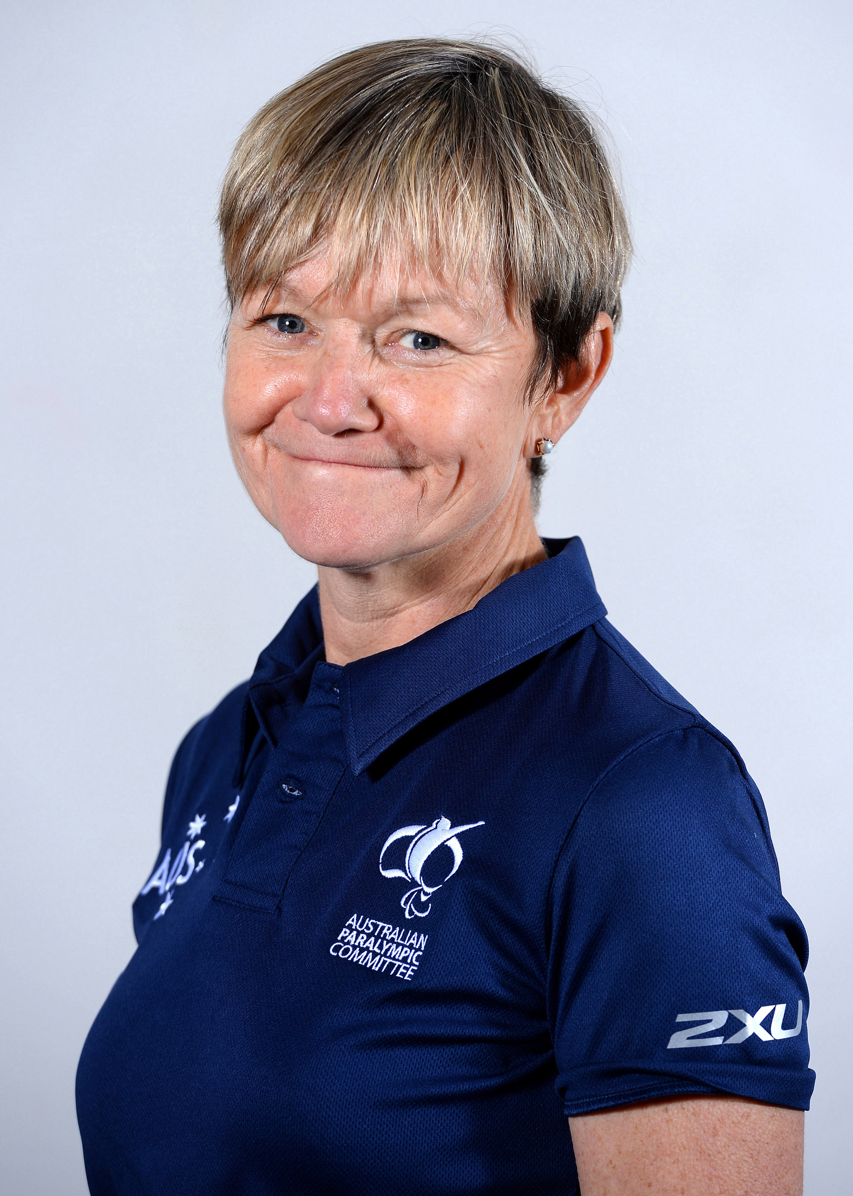 Portrait photograph of Jo Burnand taken at team processing session for shadow members of 2016 Australian Paralympic team